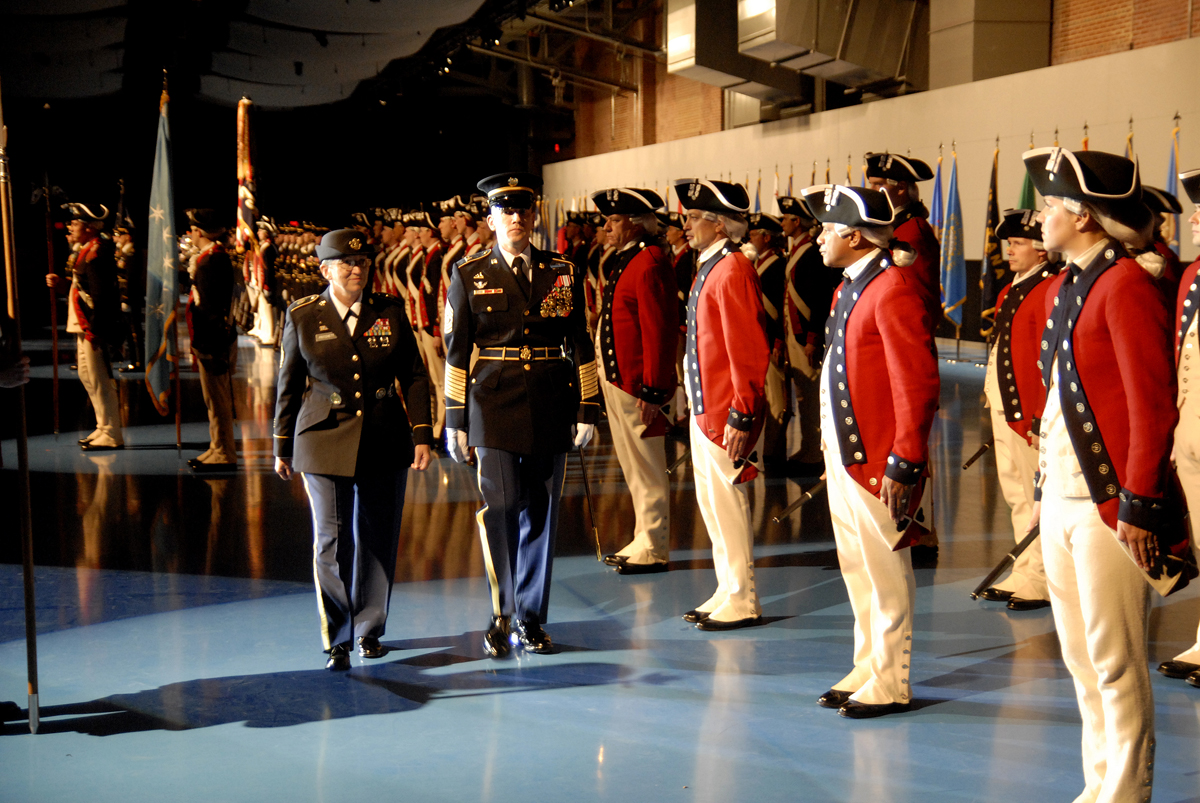 3rd U.S. Infantry Regimental Command Sgt. Maj. David Martel leads retiring CENTCOM Command Sgt. Maj. Cynthia Pritchett on a final inspection of troops at her retirement ceremony Nov. 13. See more at Army's longest serving female command sergeant major retires